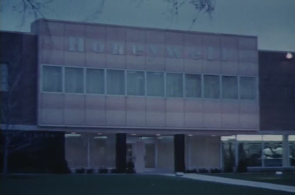 Honeywell Building in the 60s from NASA's video.